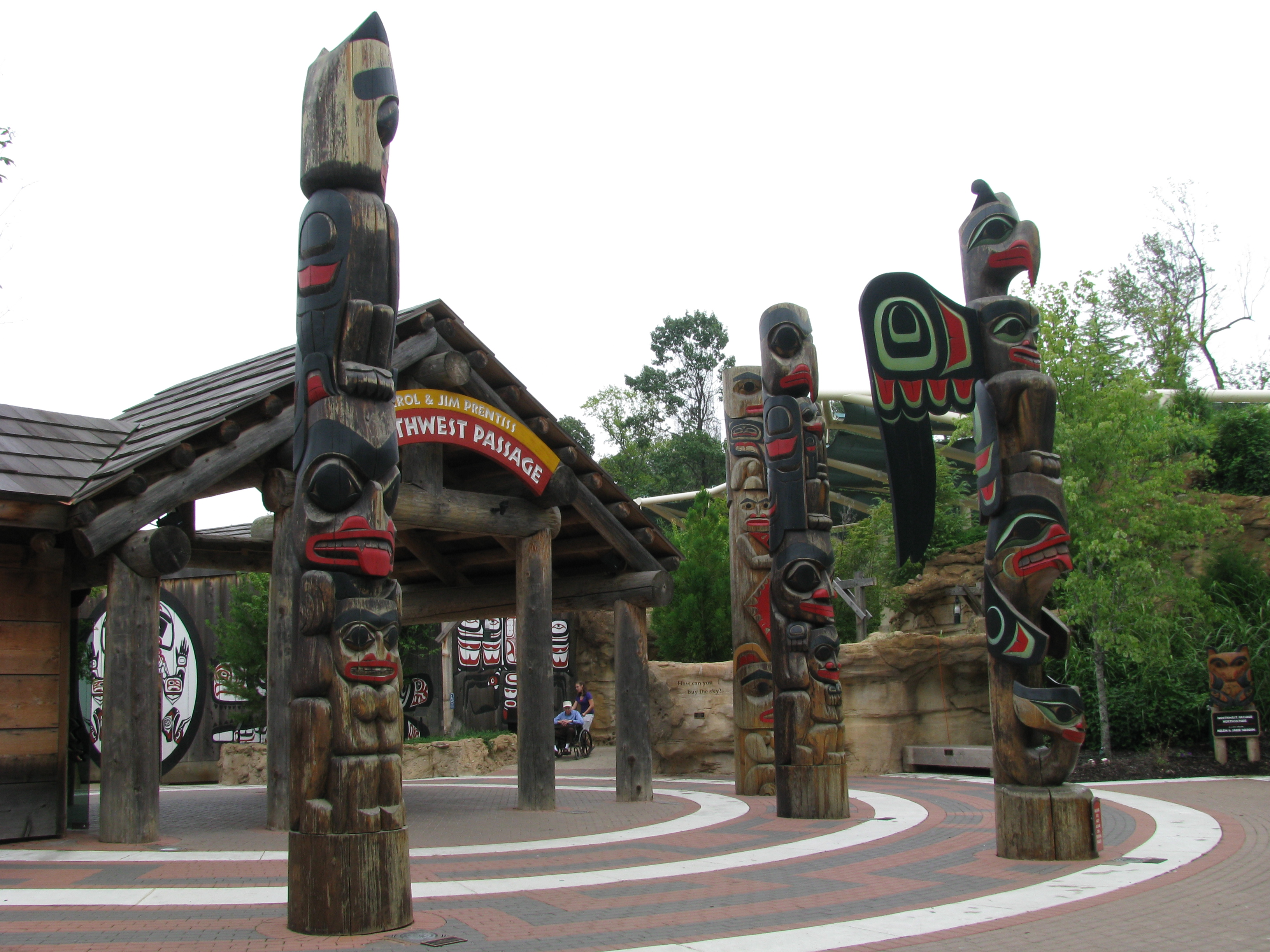 The entrance to the Northwest Passage exhibit at the Memphis Zoo.